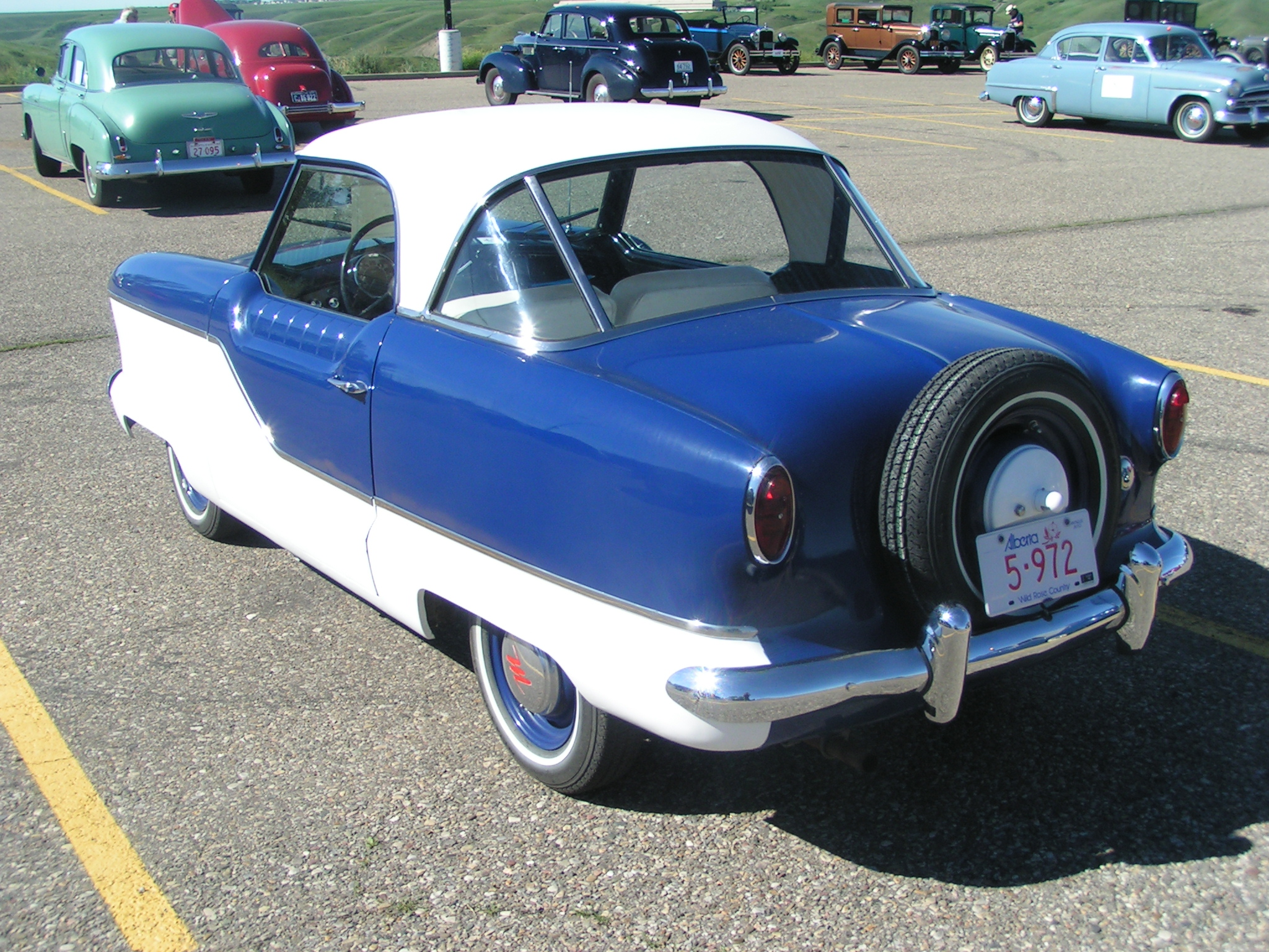 1957 Nash Metropolitan